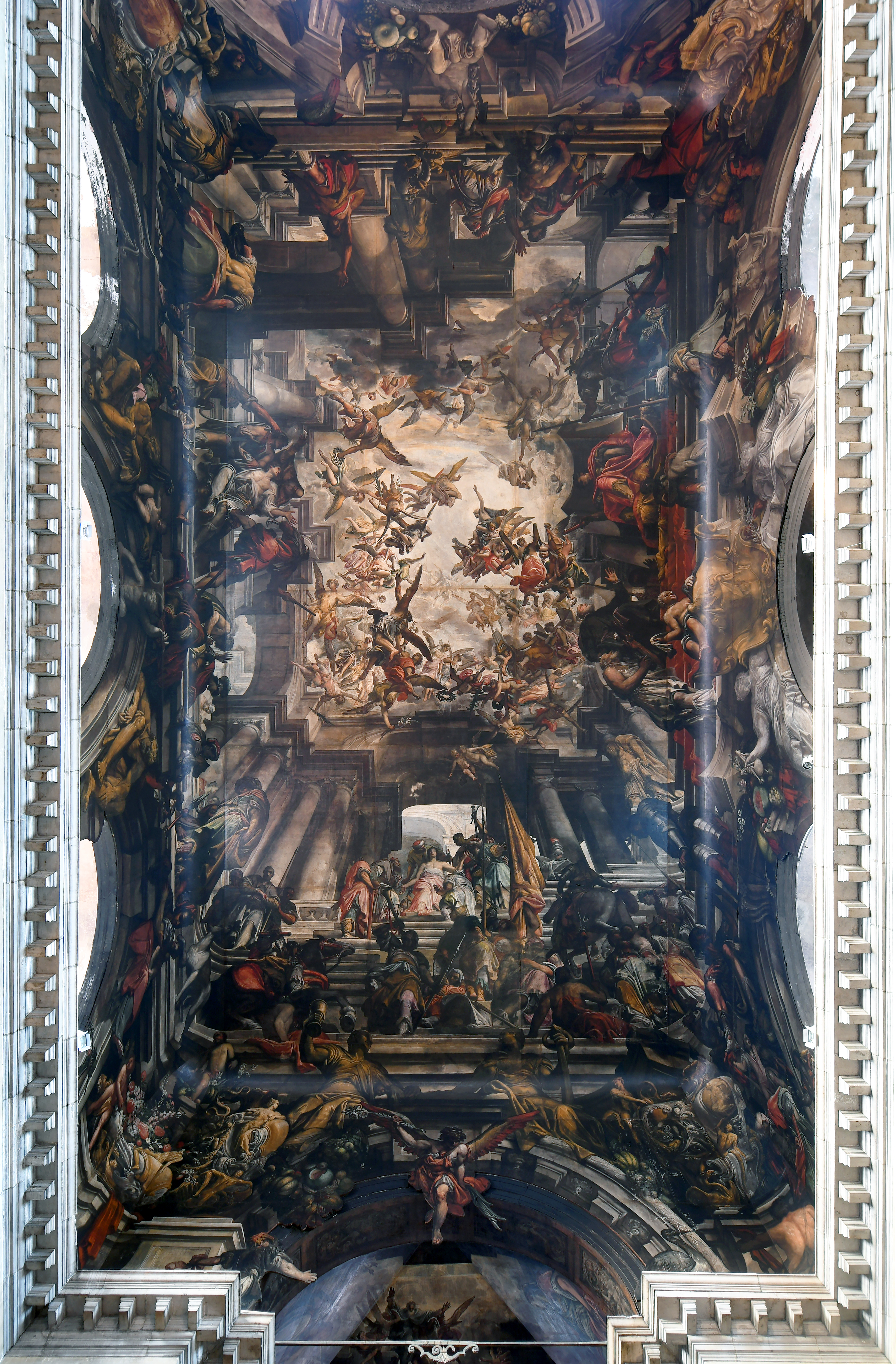 Interior of San Pantaleone (Venice) - The Martyrdom and Apotheosis of St Pantalon - Gian Antonio Fumiani